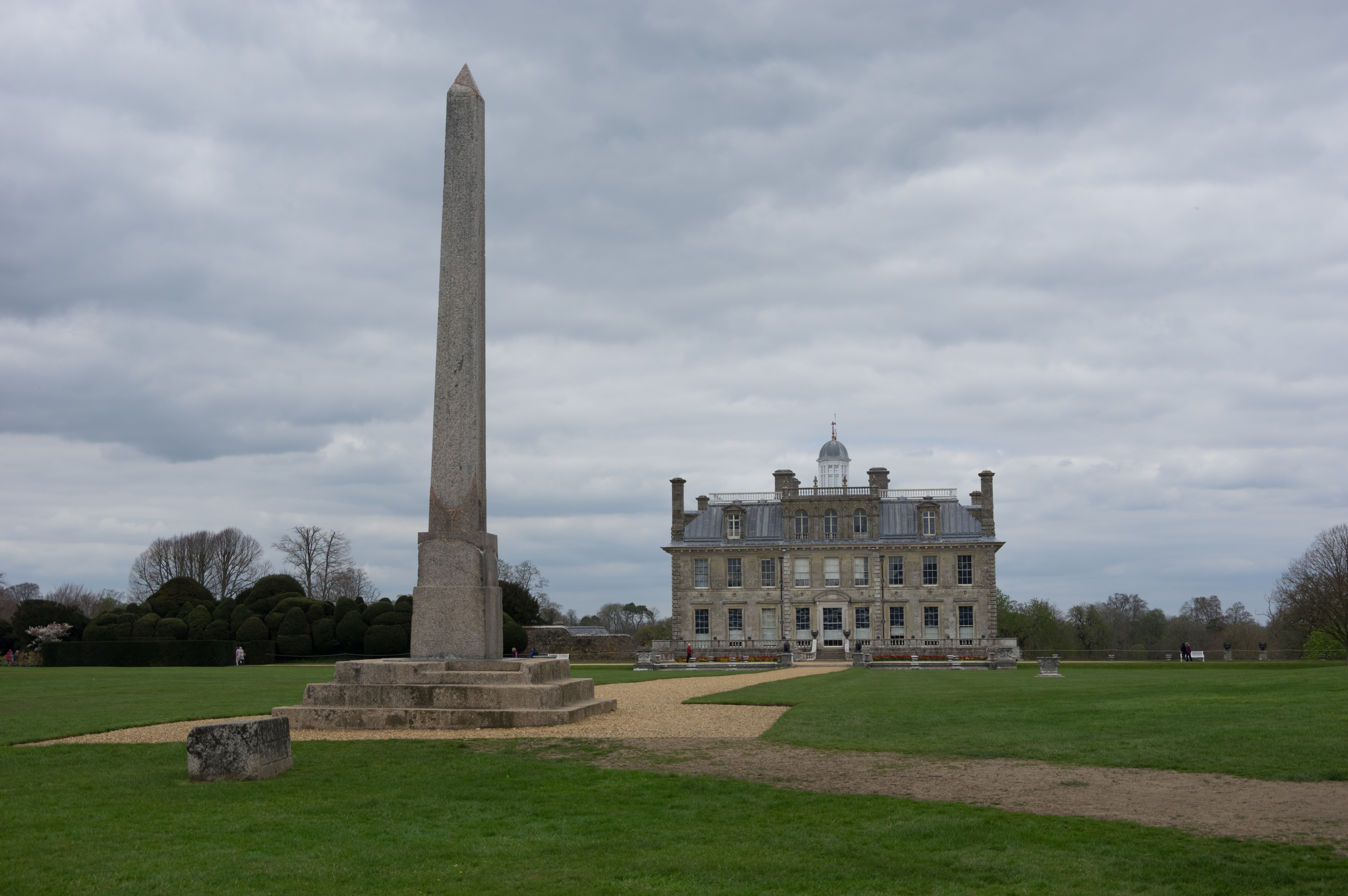 Kingston Lacy, castle an obelisk